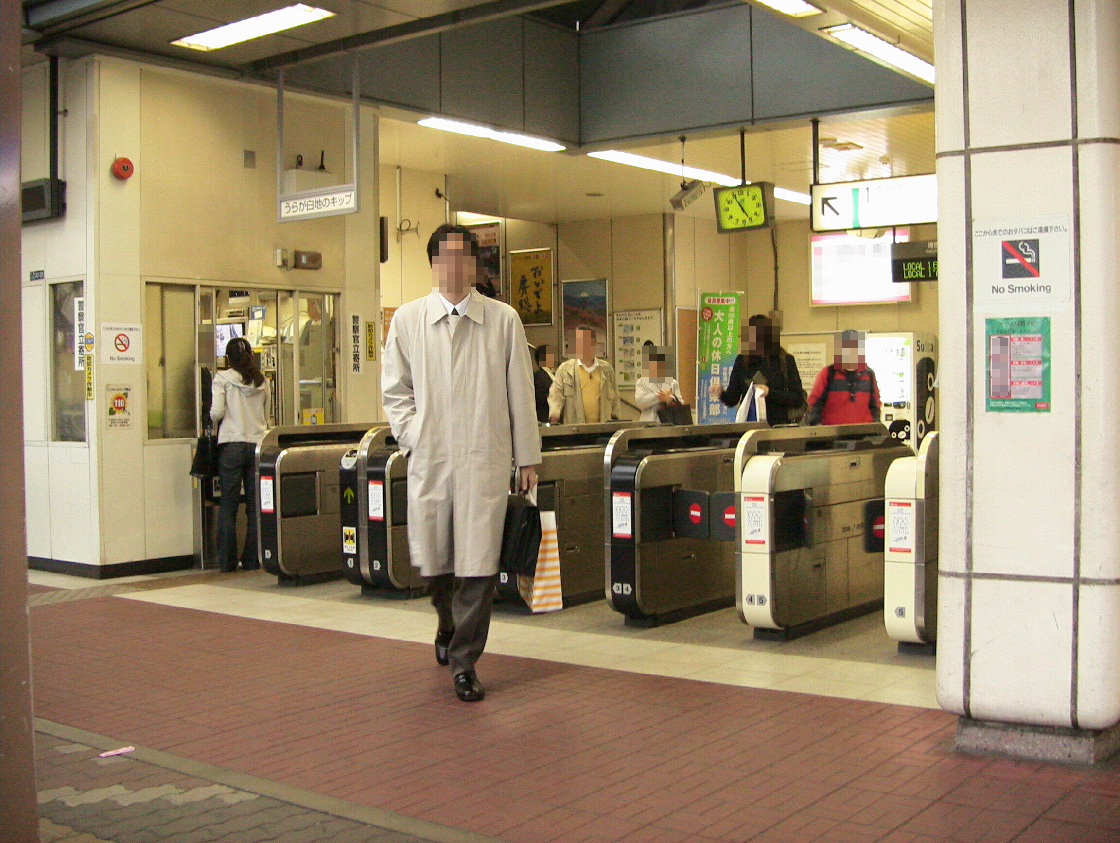 Exit of Ukima-Funado Station